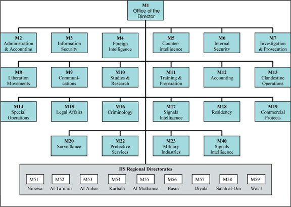 This is a chart of the organization of the Iraqi Intelligence Service under Saddam Hussein.